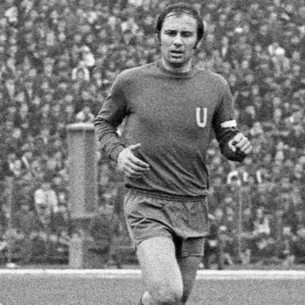 Ion Oblemenco playing for Universitatea Craiova